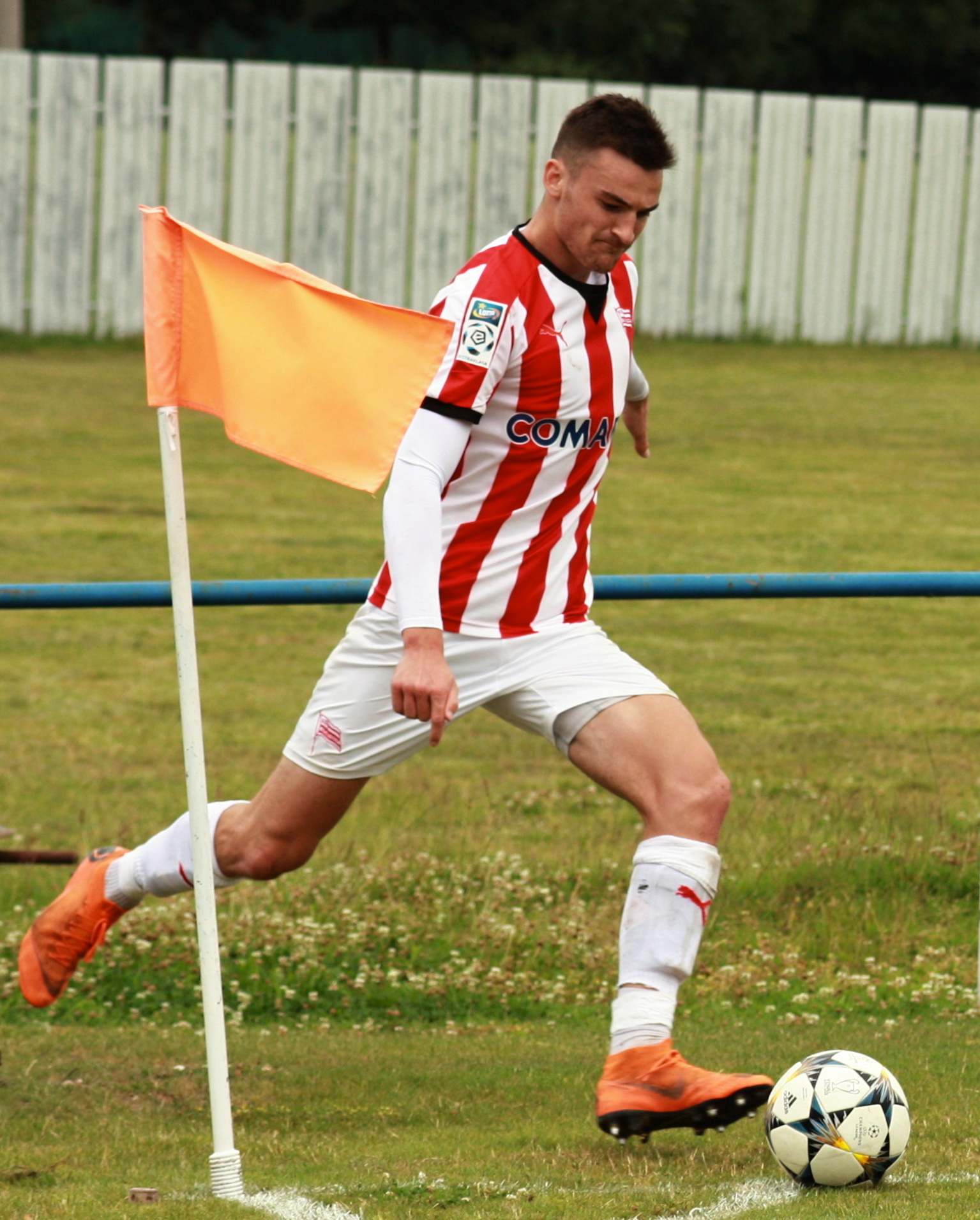 Milan Dimun, Slovak footballer in team Cracovia during friendly match against MFK Karviná in Dětmarovice, 23rd June 2018